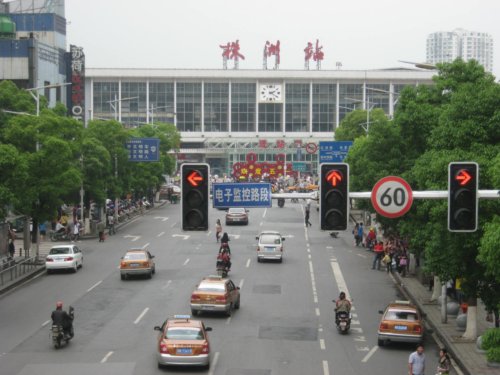 ZhuZhou Rail Station